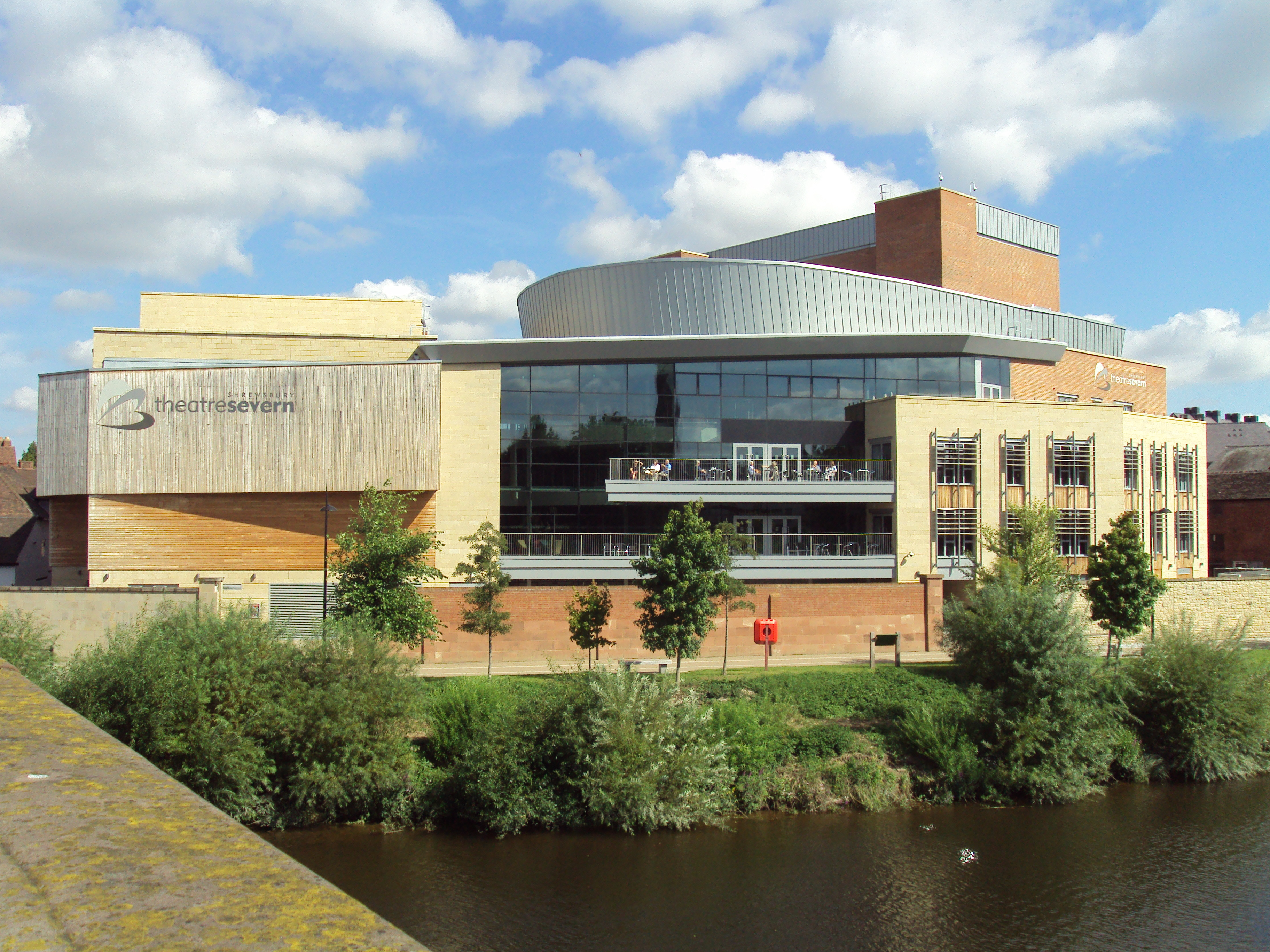 Theatre Severn, Shrewsbury, England.